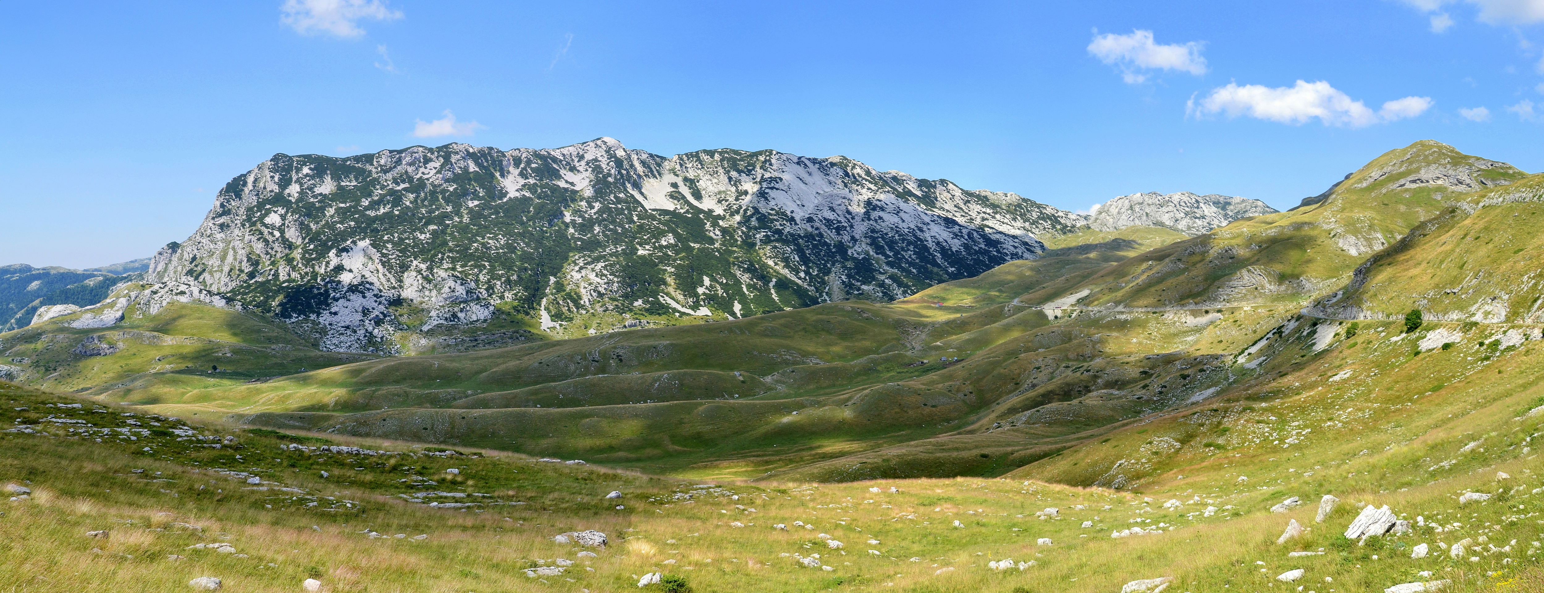 Durmitor mountains, Montenegro. View from Sedlo